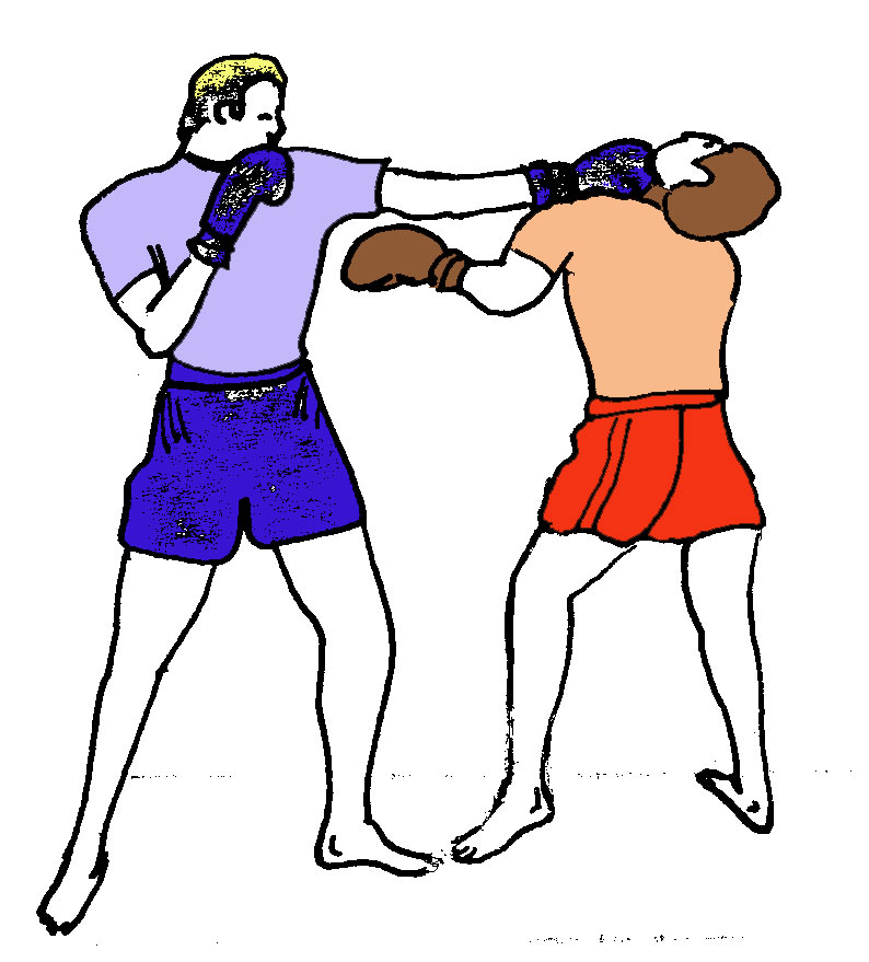 Jab for the stop